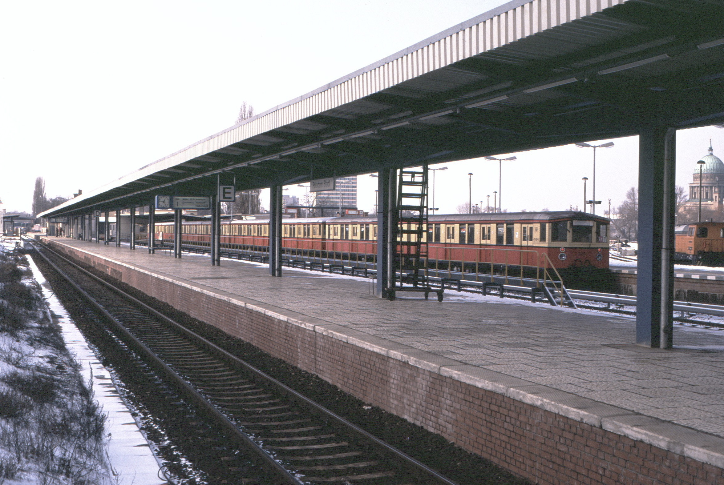 Potsdam Stadt train station; Potsdam, Germany